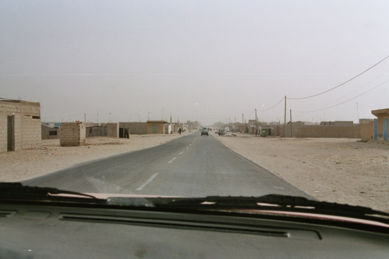 A Street in Nouadhibou